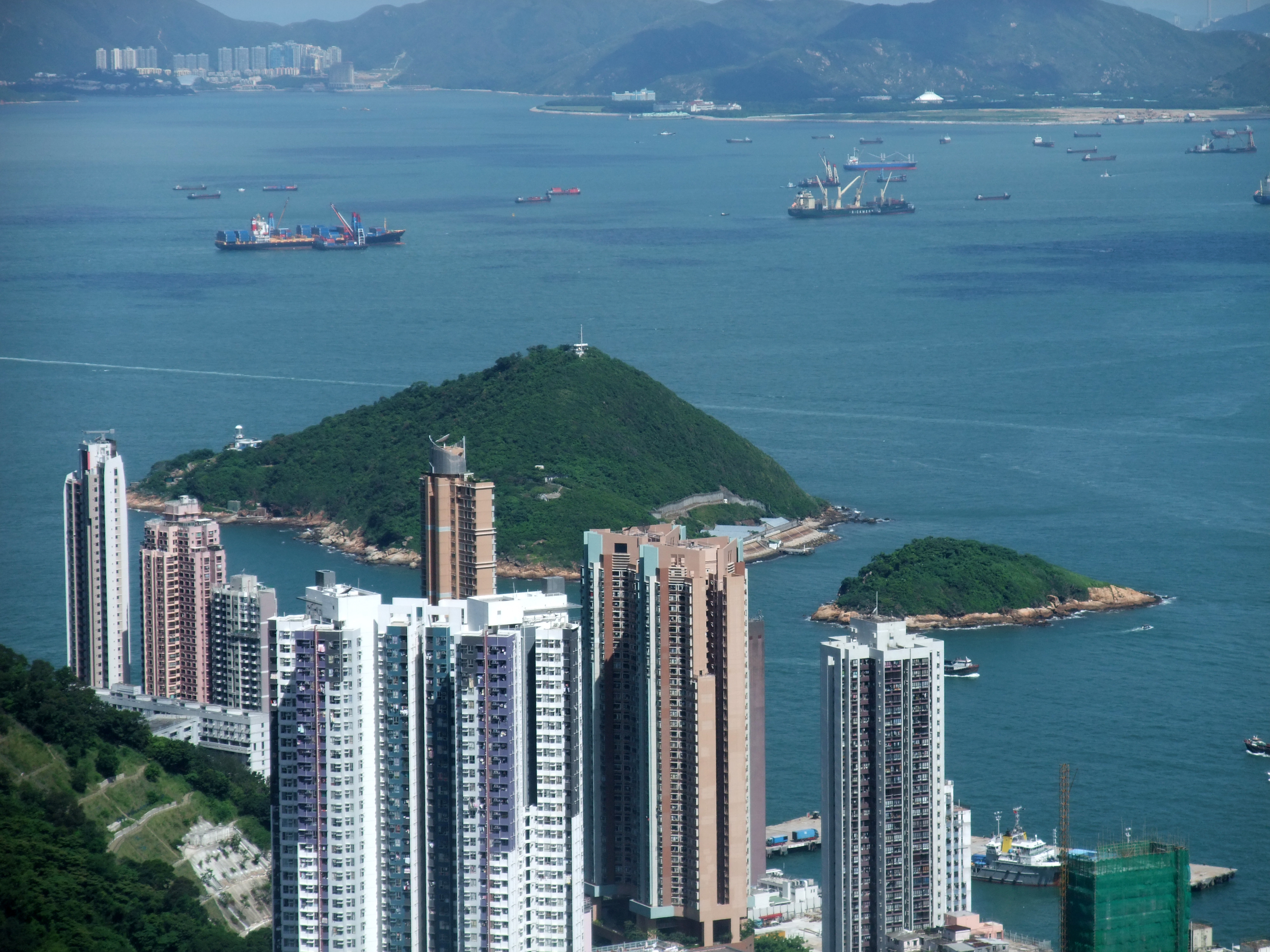 Photo of Green Island and Little Green Island